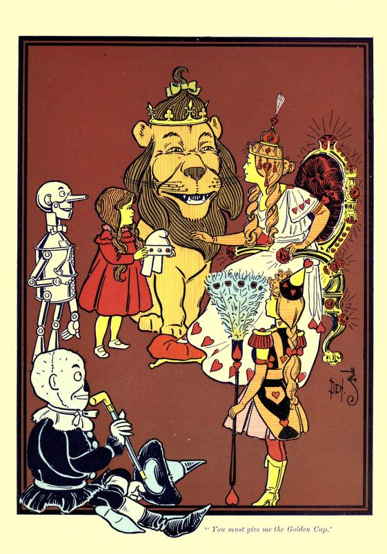 Meeting with Glinda the Good Witch from The Wonderful Wizard of Oz first edition.